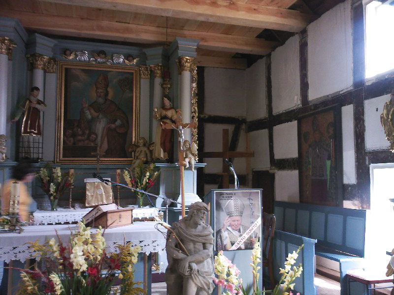 Ołtarz w kościele Św. Mikołaja w Czapielsku (woj. Pomorskie)